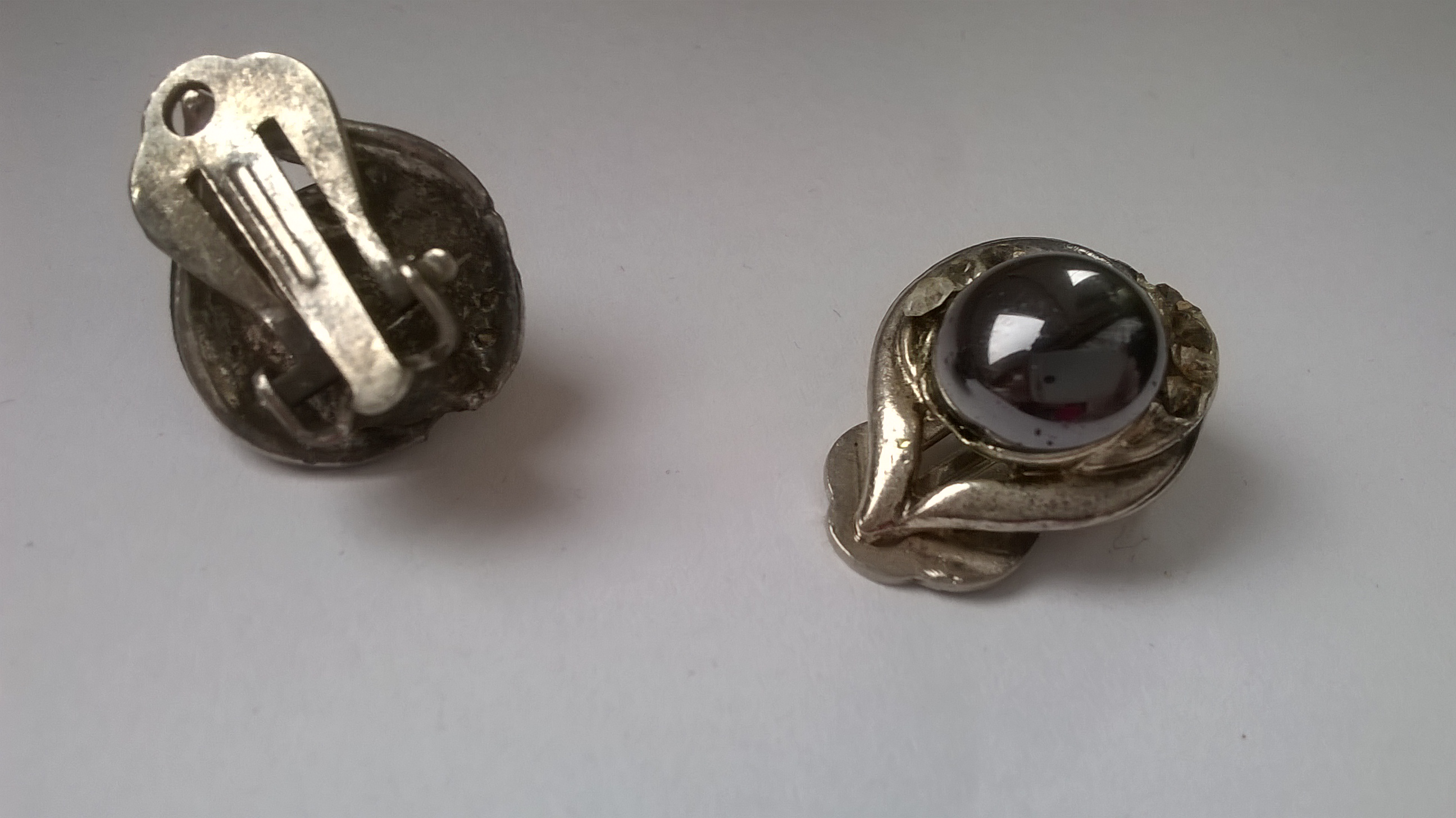 First version of my photo - "klipsy4"